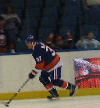 Dean McAmmond at a New York Islanders game.